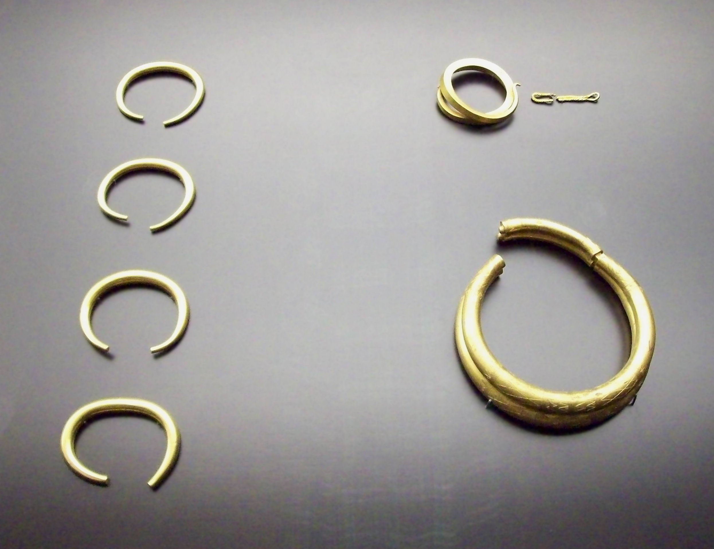 A goldwork collection from the Late Bronze Age.